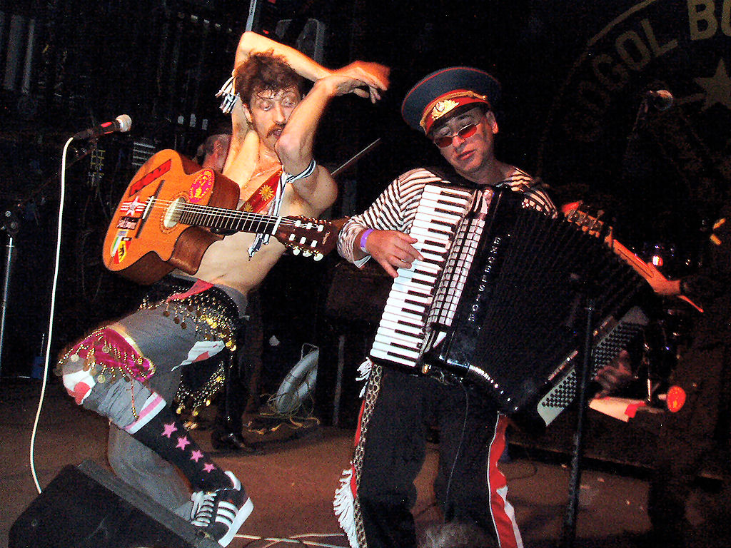 Gogol Bordello at the Aggie Theatre, Fort Collins, Colorado